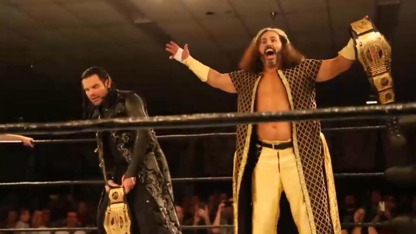 Good................